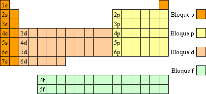 periodic table with blocks